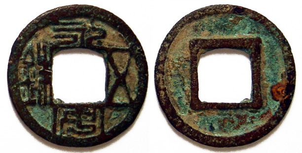 Obverse and reverse of a Yong An Wu Zhu coin from the Northern Wei Dynasty.